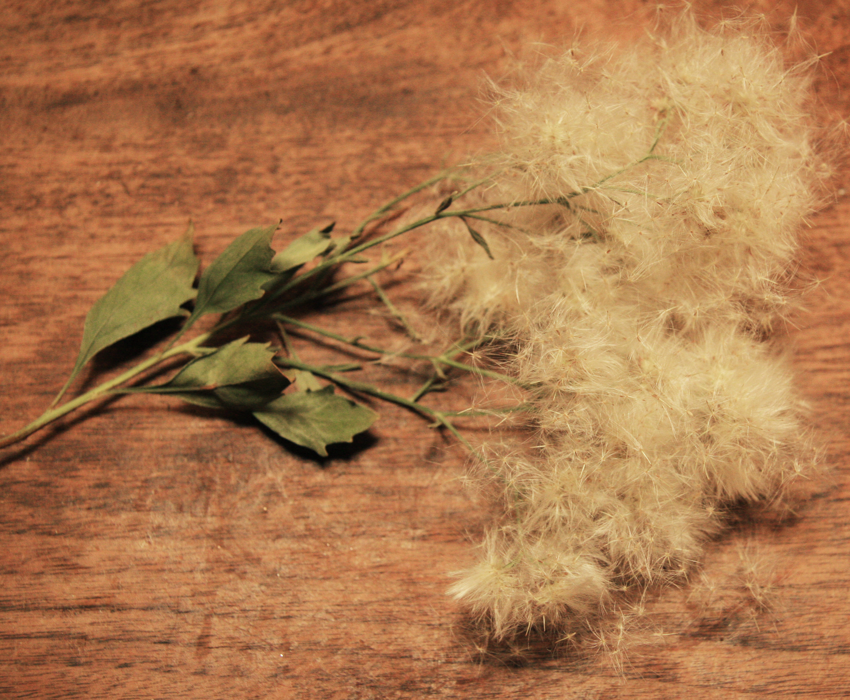 Groundseltree (Baccharis halimifolia) fall flowerhead after two hours indoors, showing leaf shape and long narrow seeds with very fluffy hairs for windblown dispersal. Collected along route I-40 in Johnston County, eastern North Carolina.